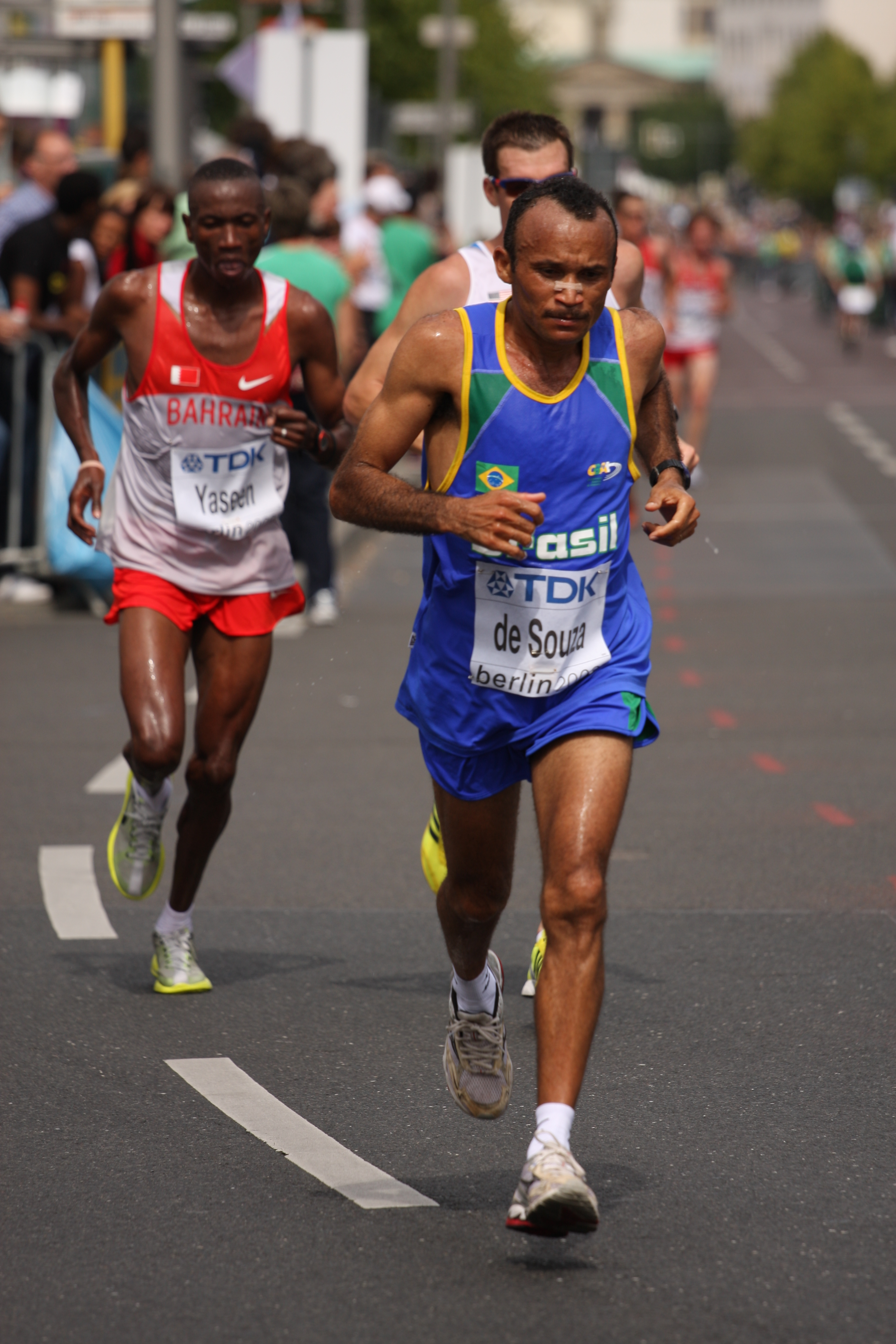 Marathon